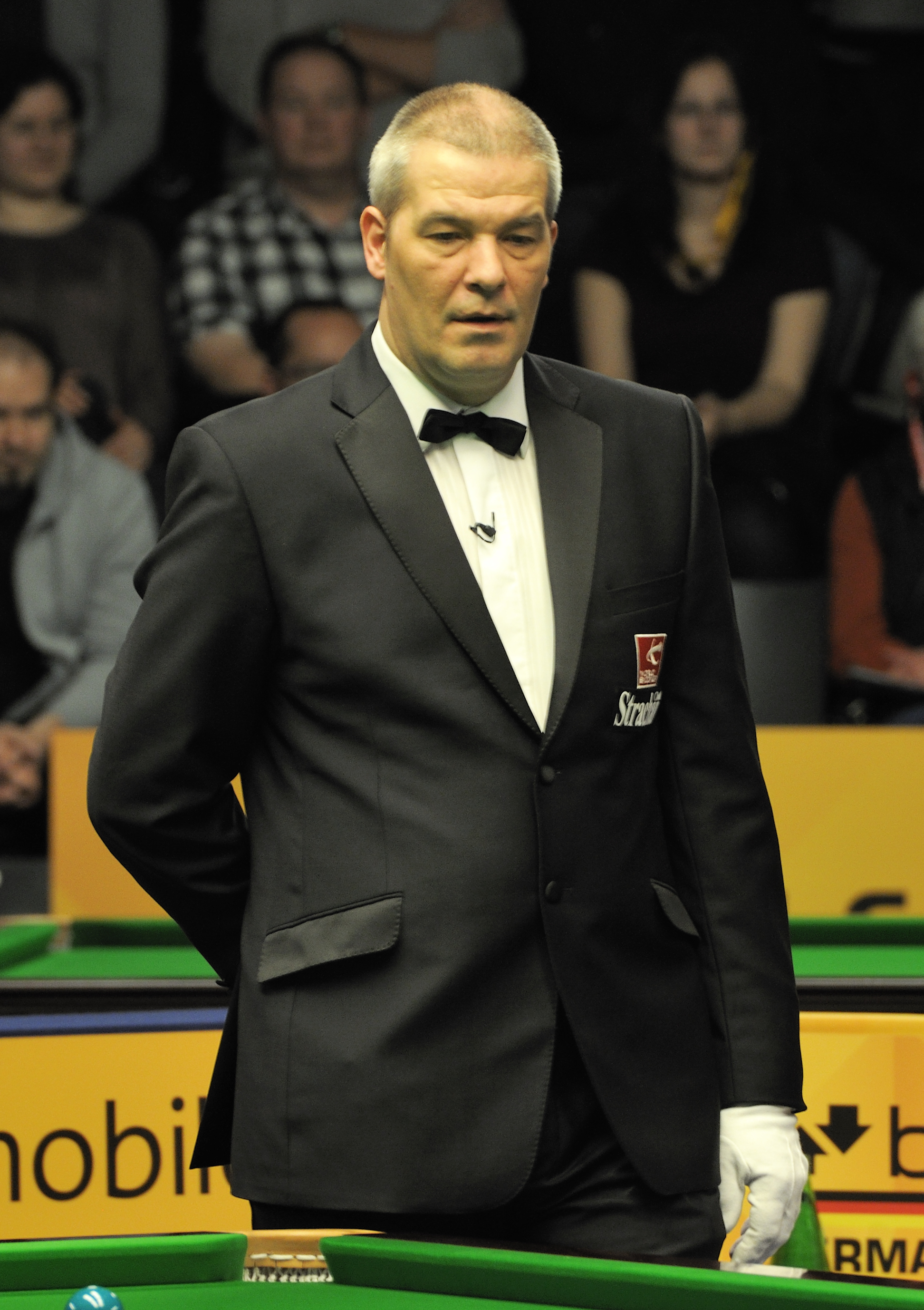 Picture taken in Berlin during the Snooker German Masters in 2013. Jan Verhaas.